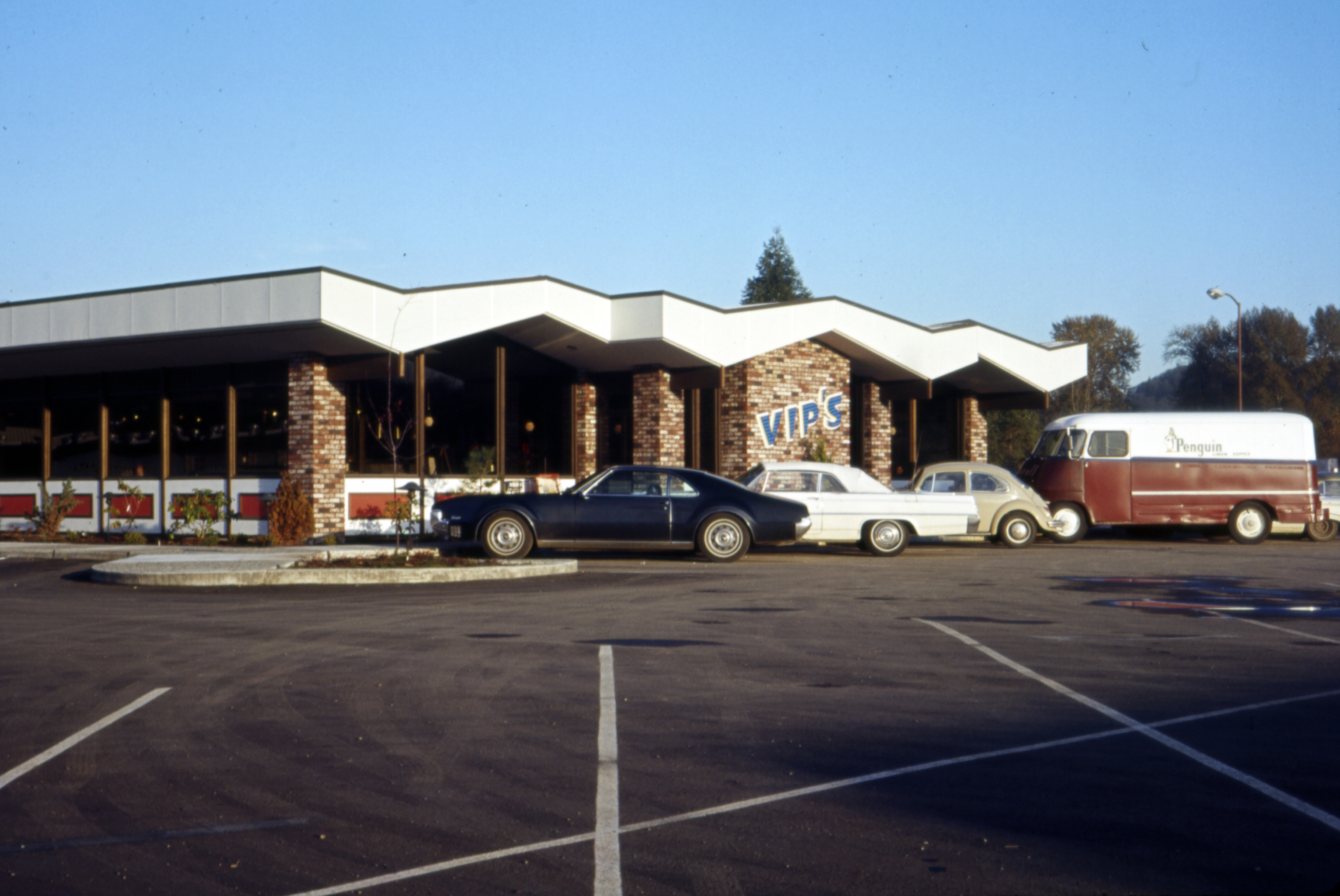 A VIP's Restaurant, 13050 Interurban Ave S, Tukwila, Washington, U.S., 1970.